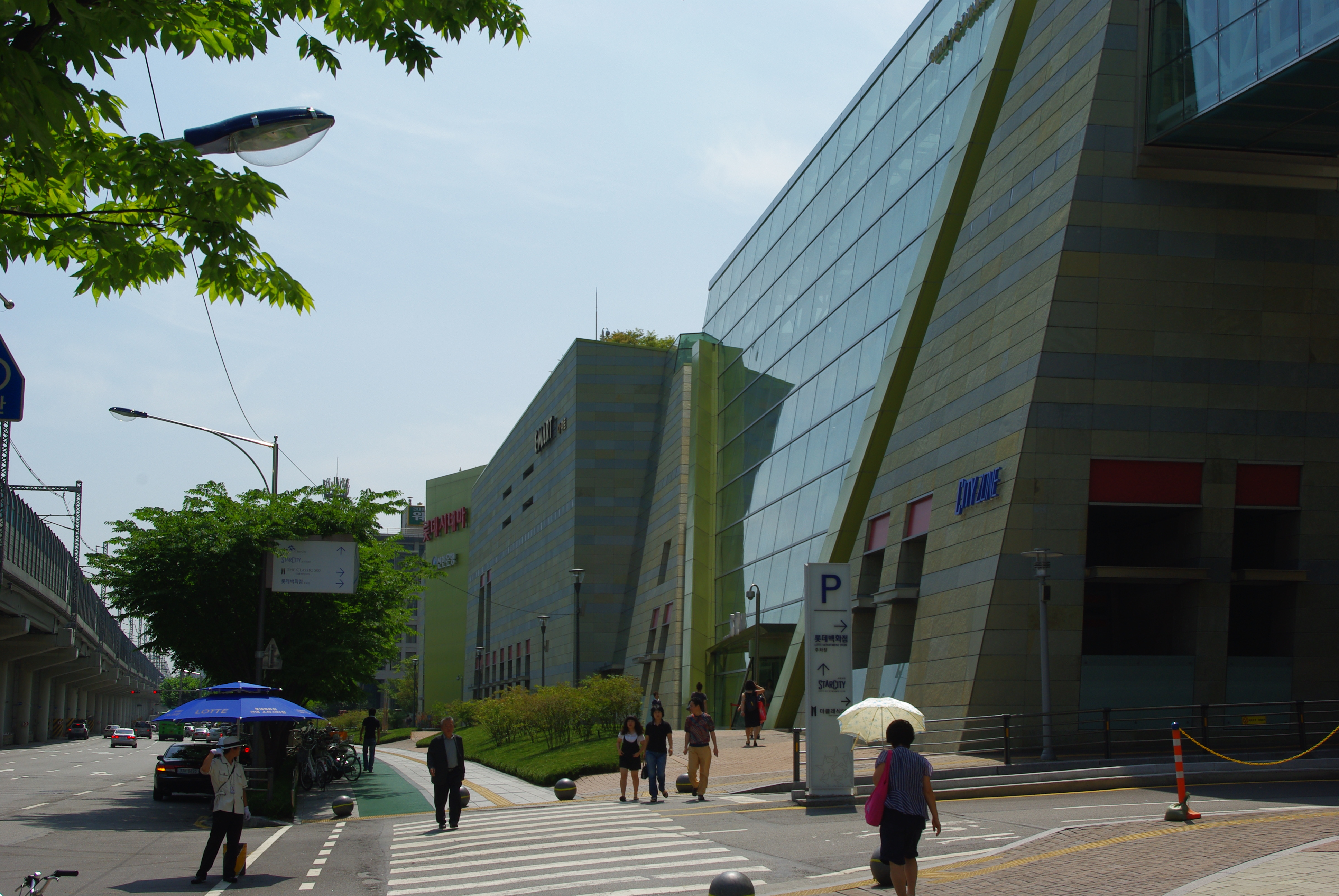 Photo of Star City, Seoul capturing the City Zone half of the mall